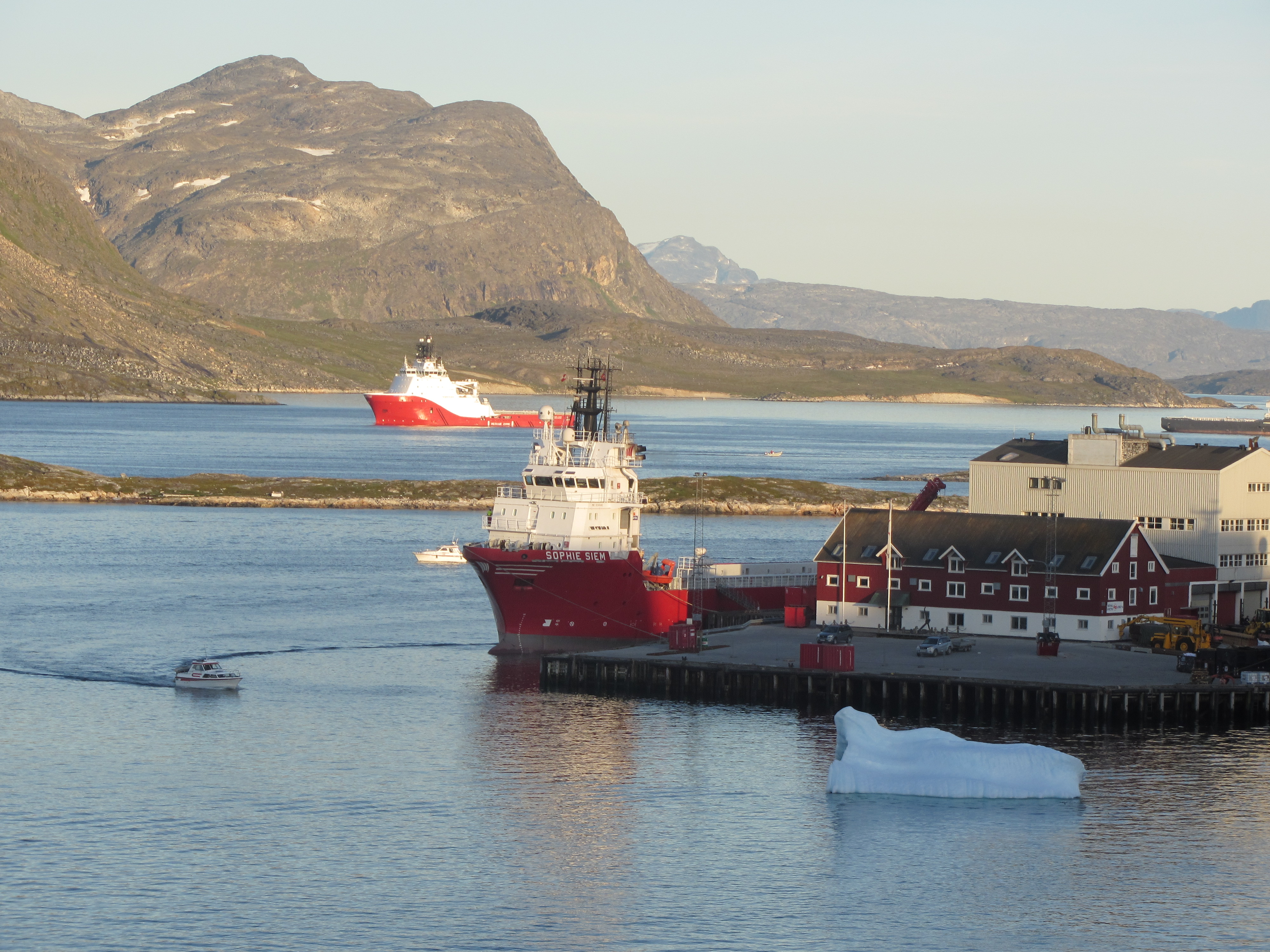 The harbour in Nuuk